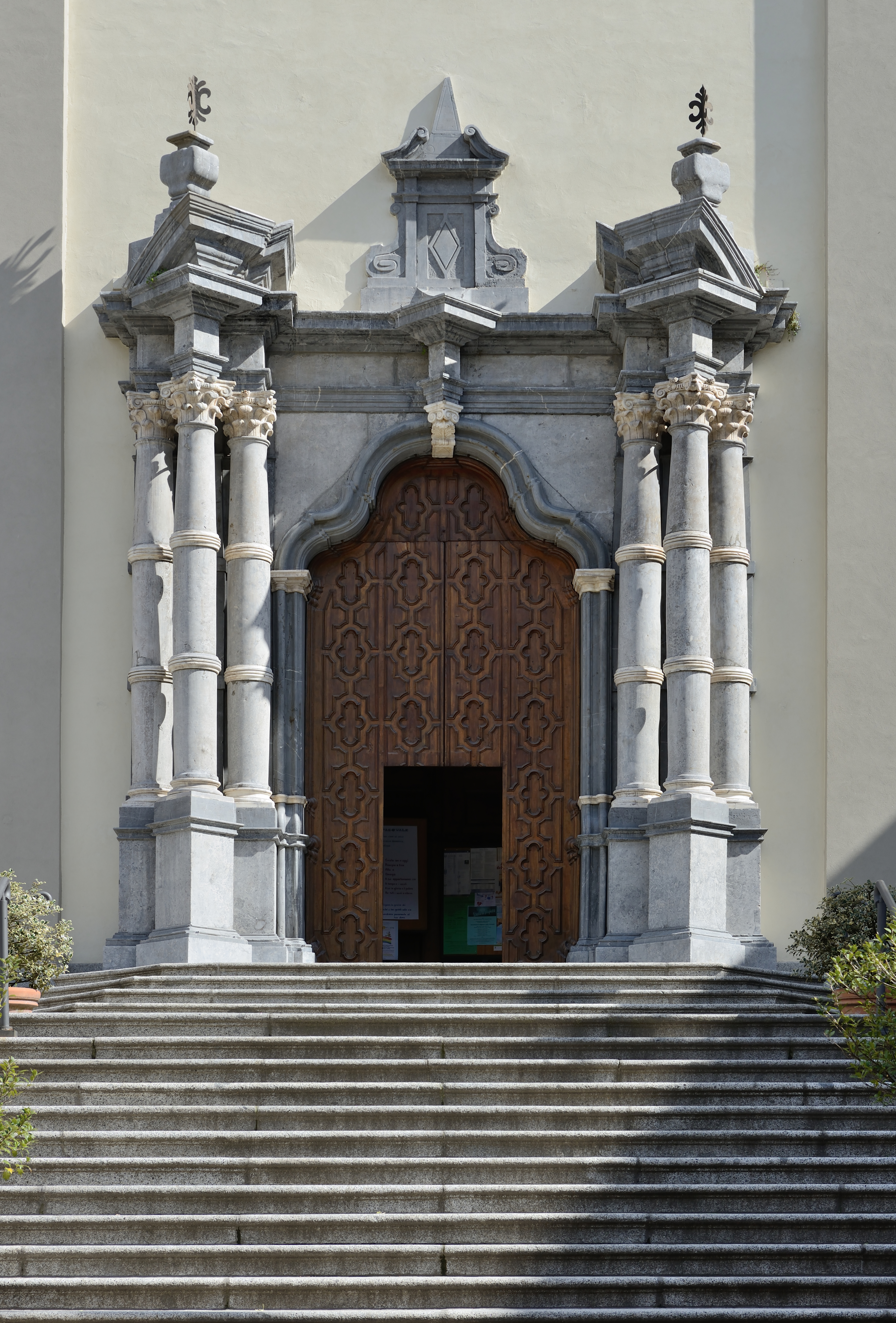 Baroque portal of the parish church - Trasfigurazione di Nostro Signore Gesù Cristo. Breno, Val Camonica